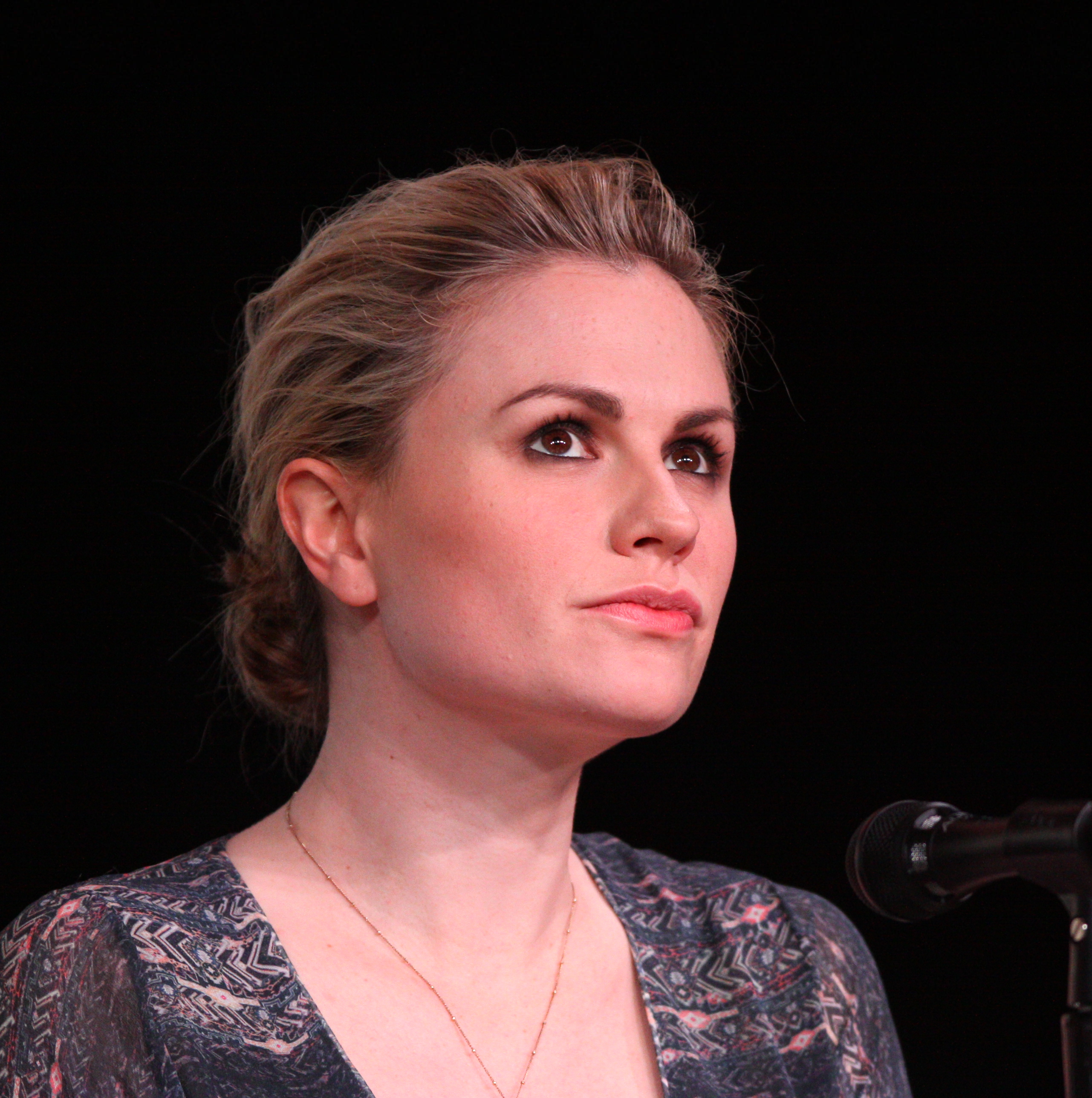 Anna Paquin at the 2012 Comic-Con in San Diego.